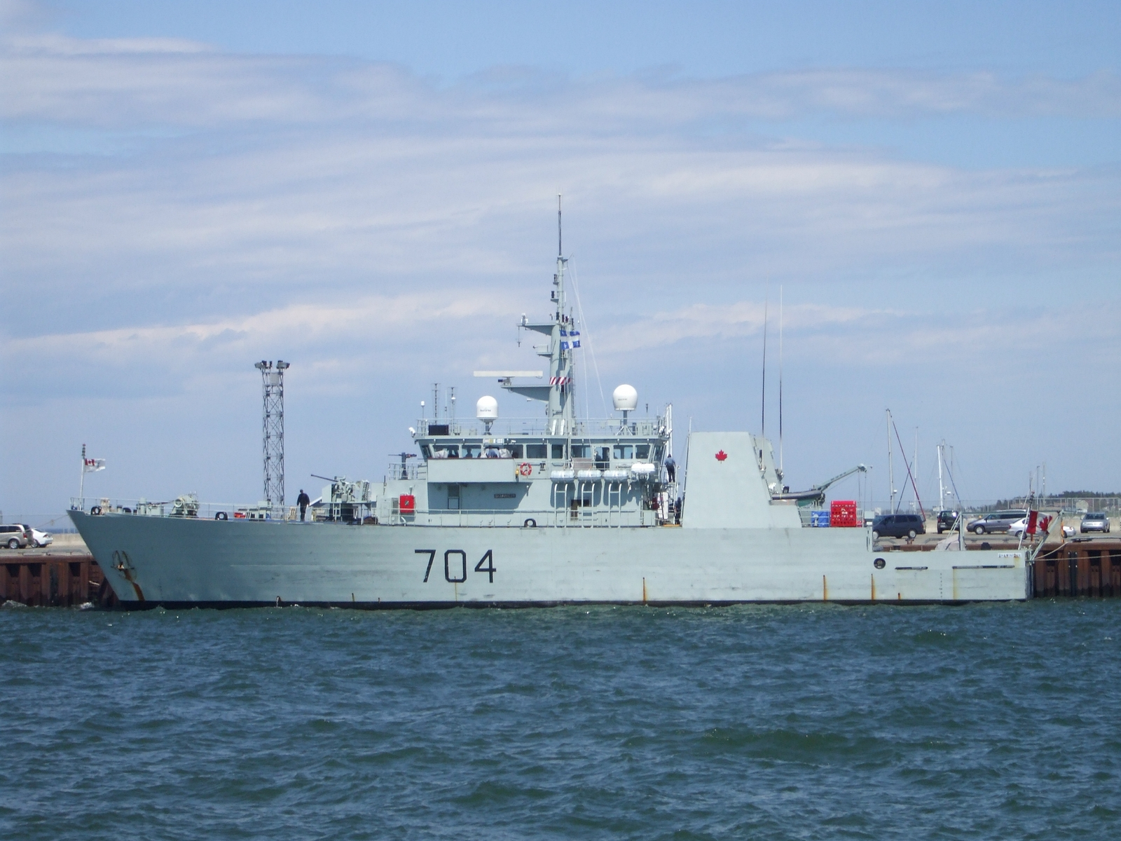 HMCS Shawinigan at Rimouski, Québec, Canada. Rimouski harbour ( summer 2009 )